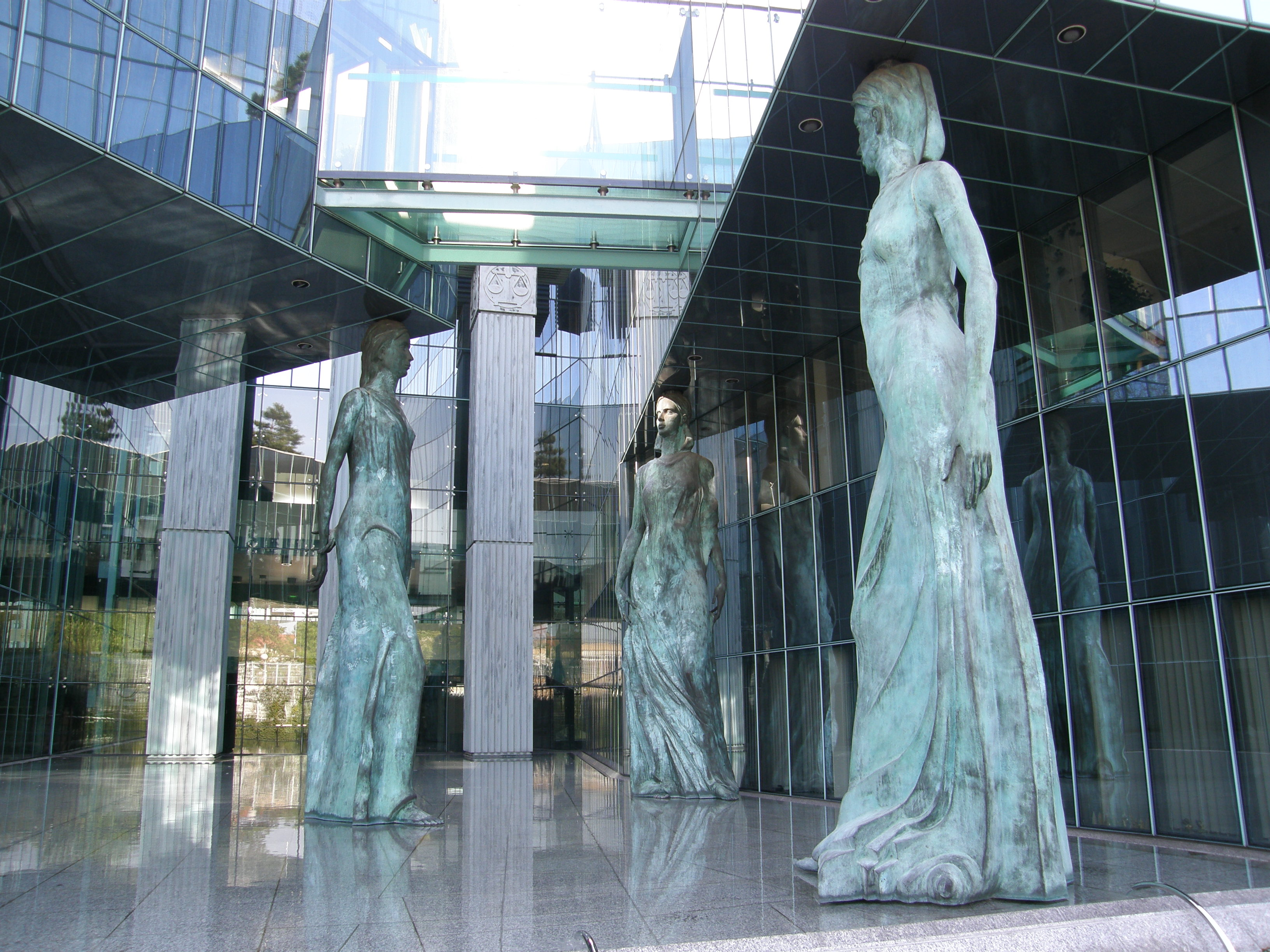 Caryatid at the back of Supreme Court of Poland building.